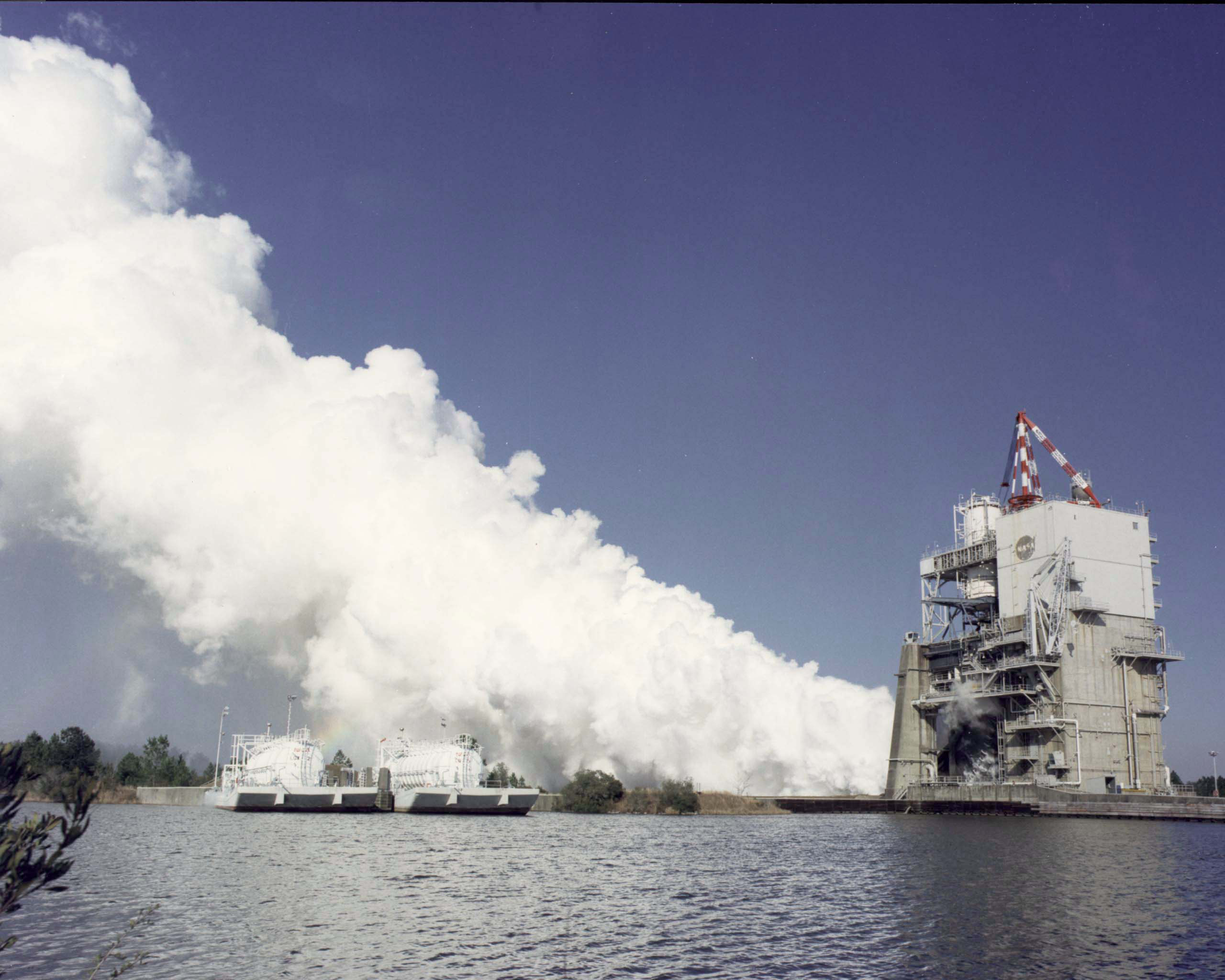 A cloud of extremely hot steam boils out of the flame deflector at the A-1 test stand during a test firing of a Space Shuttle Main Engine (SSME) at the John C. Stennis Space Center, Hancock County, Mississippi.